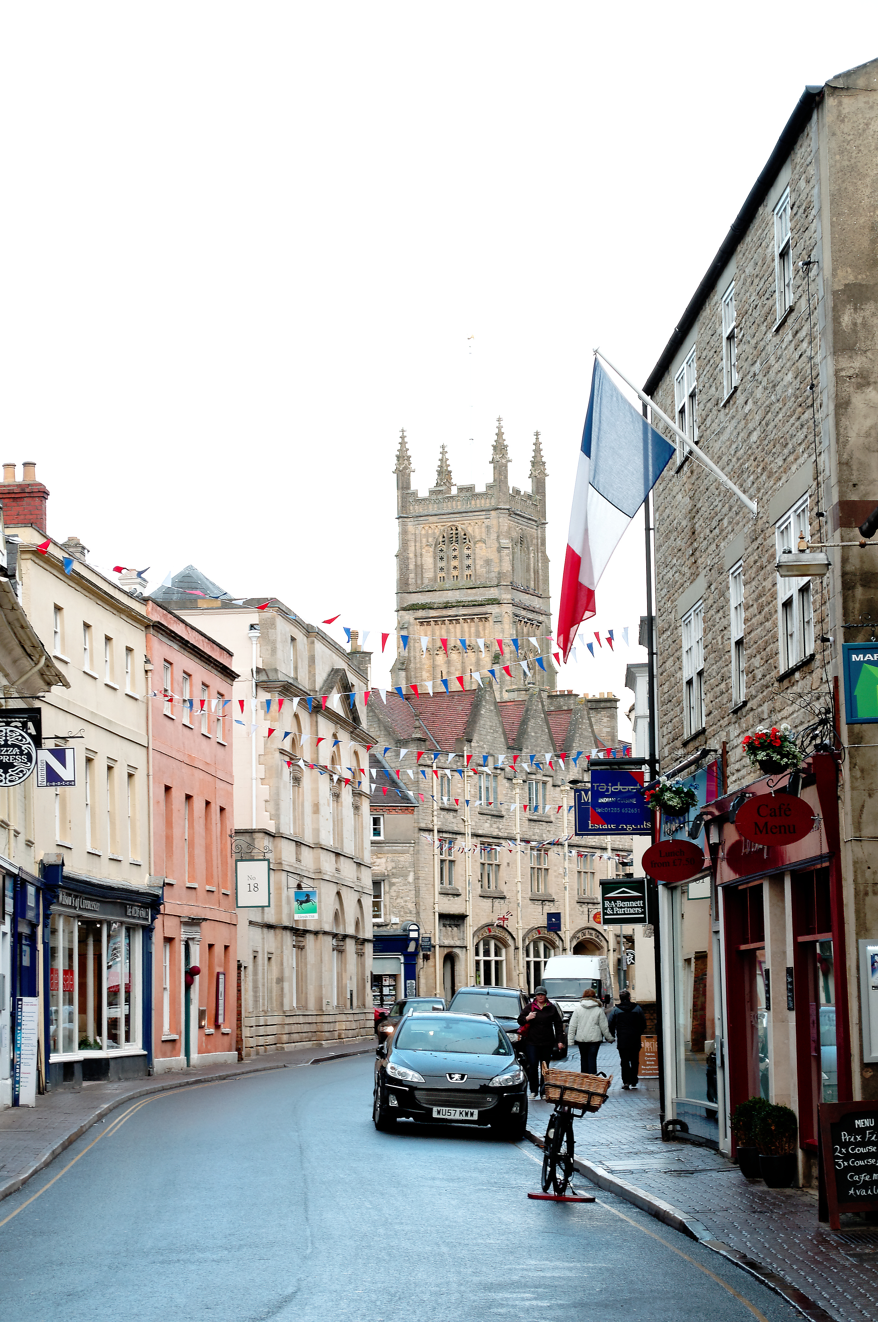 Castle Street, Cirencester